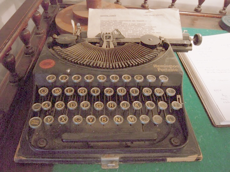 Marai Sandor typewriter in Kassa